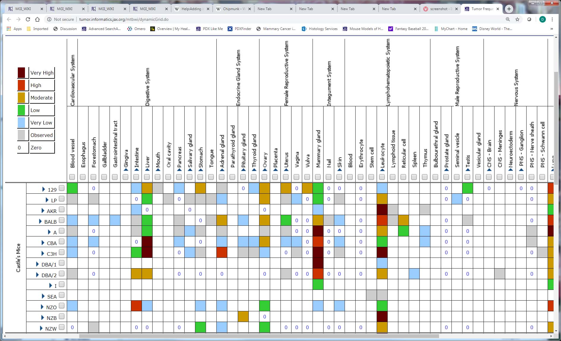 Image shows the Dynamic Tumor Frequency grid on the Mouse Models of Human Cancer database.